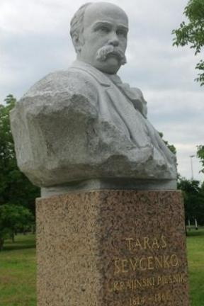 Monument of Taras Shevchenko in Zagreb, Croatia.